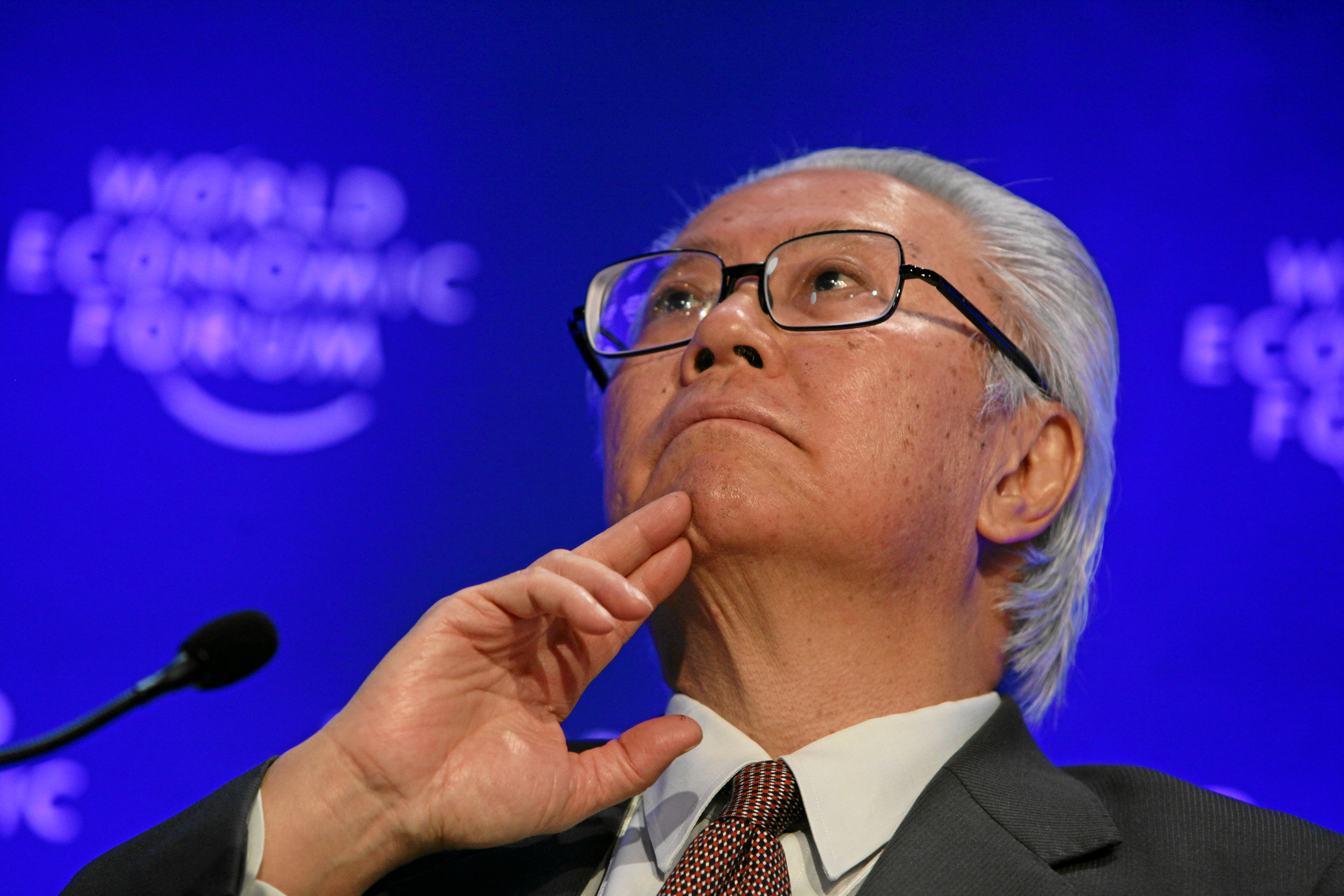 DAVOS-KLOSTERS/SWITZERLAND, 30JAN09 — Tony Tan Keng Yam, Deputy Chairman and Executive Director, Government of Singapore Investment Corporation (GIC), Singapore, during the session "Scenarios for the Future of the Global Financial System" at the Annual Meeting 2009 of the World Economic Forum in Davos, Switzerland, 30 January 2009.